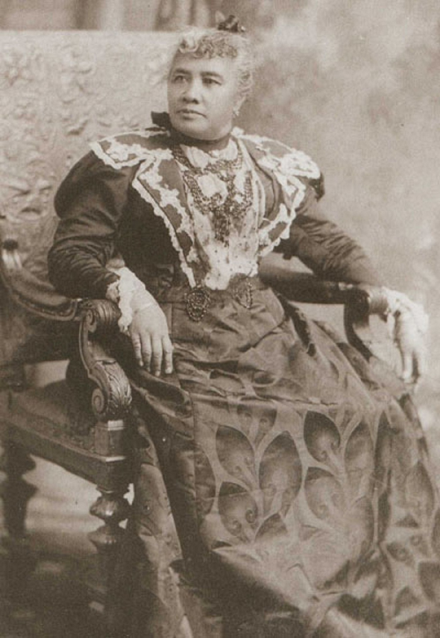 Liliuokalani in Washington D.C. protesting the Annexation of Hawaii according to Sharon Linnéa (1999) Princess Ka'iulani: Hope of a Nation, Heart of a People, Eerdmans Young Readers, p. Page 174.